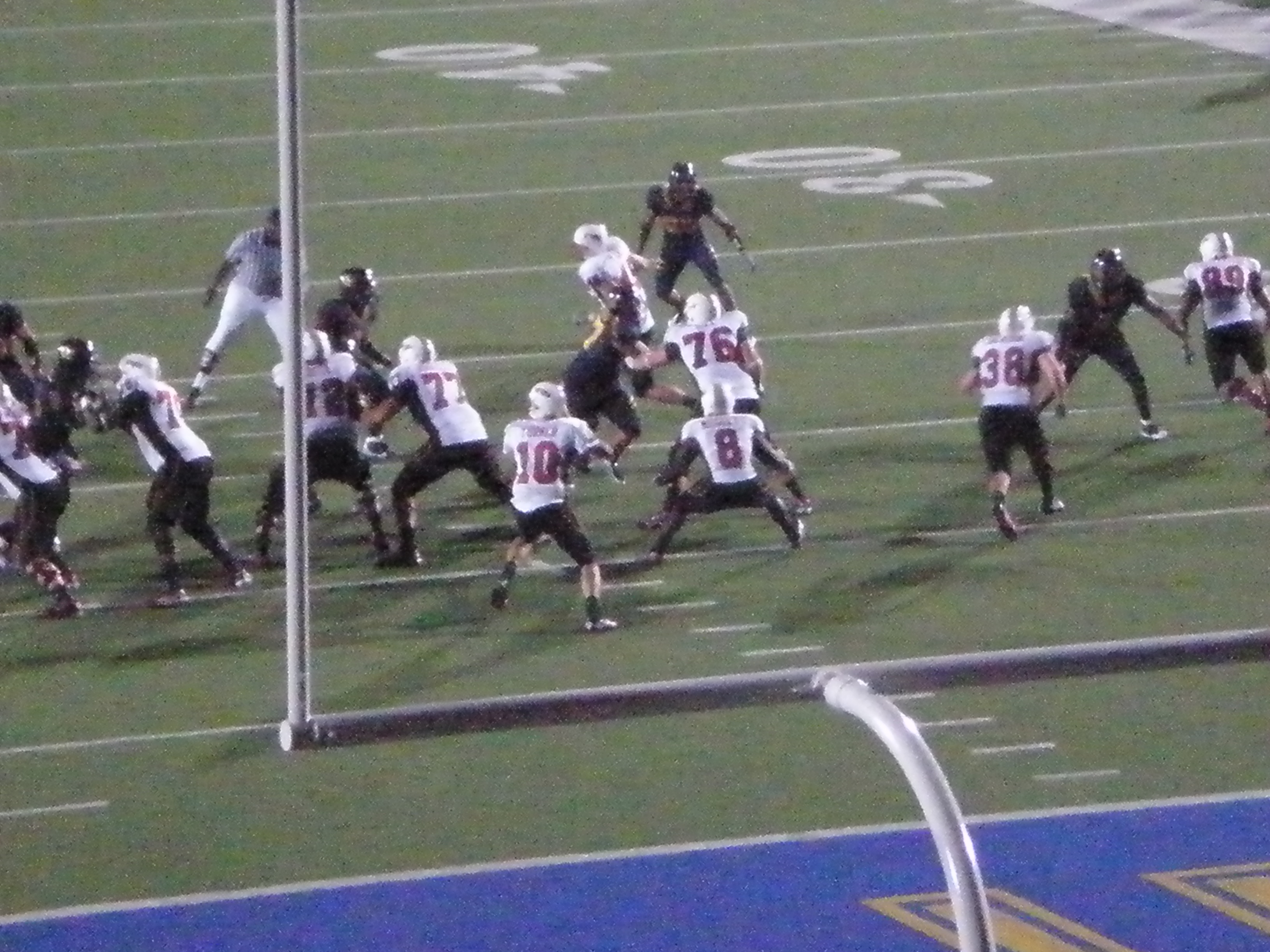 The Maryland Terrapins on offense during their first game of the 2009 season against the California Golden Bears. The Golden Bears won 52-13.